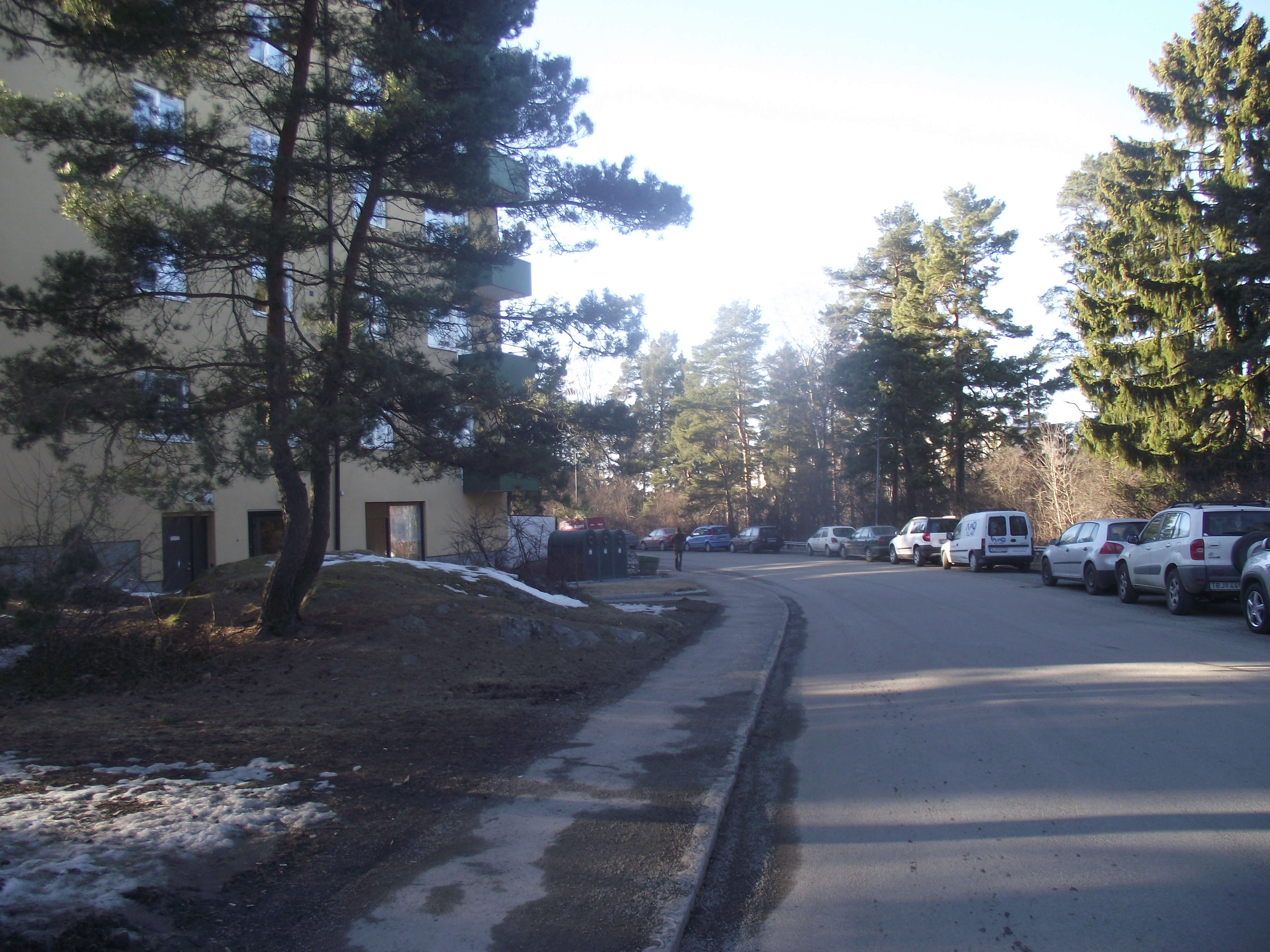 Saltvägen in Stockholm